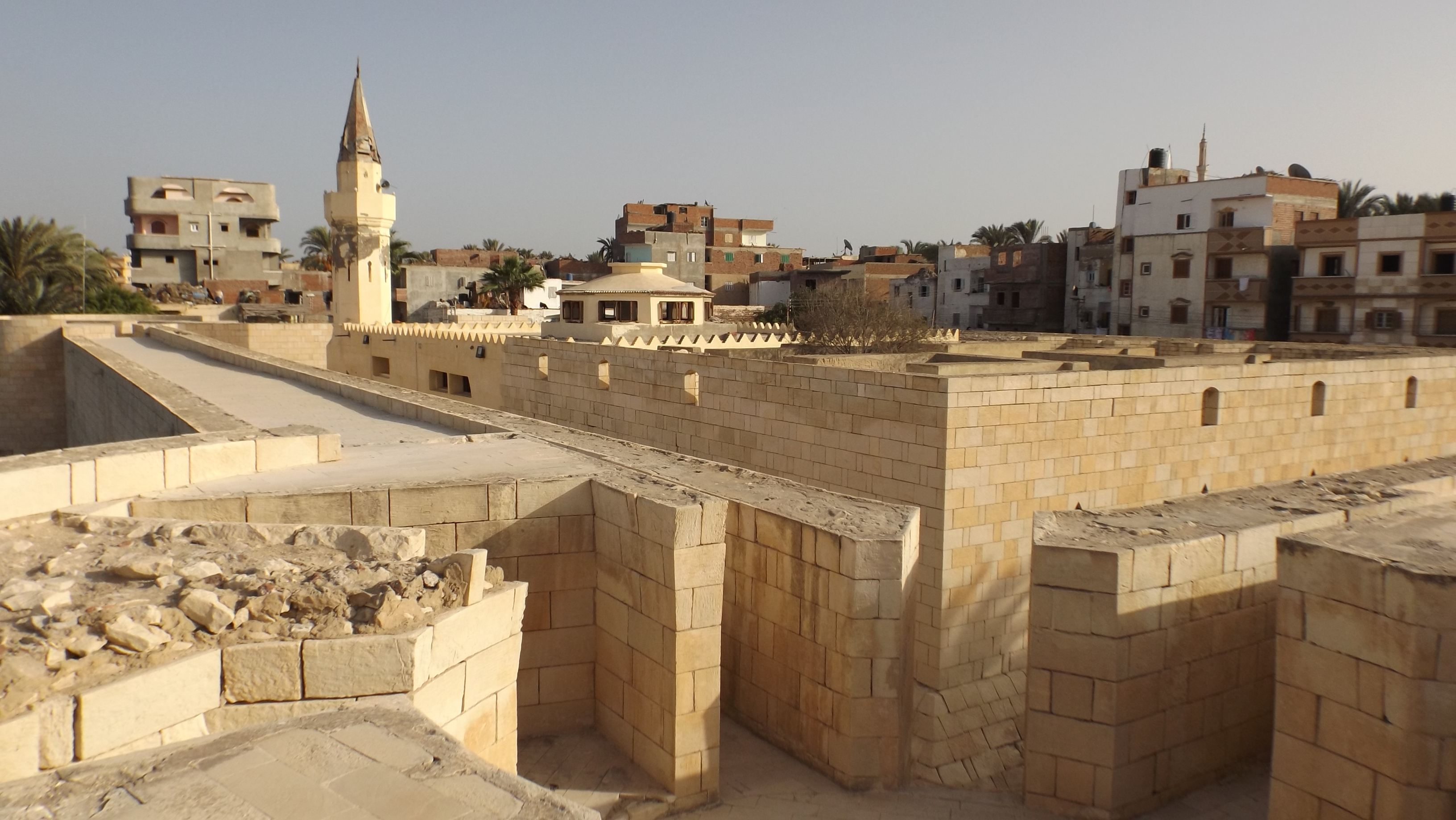 Rosetta citadel where we find Rosetta ston